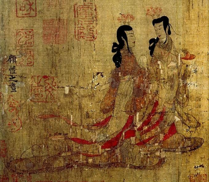 Admonitions of the Court Instructress (detail VII), from the British Museum.